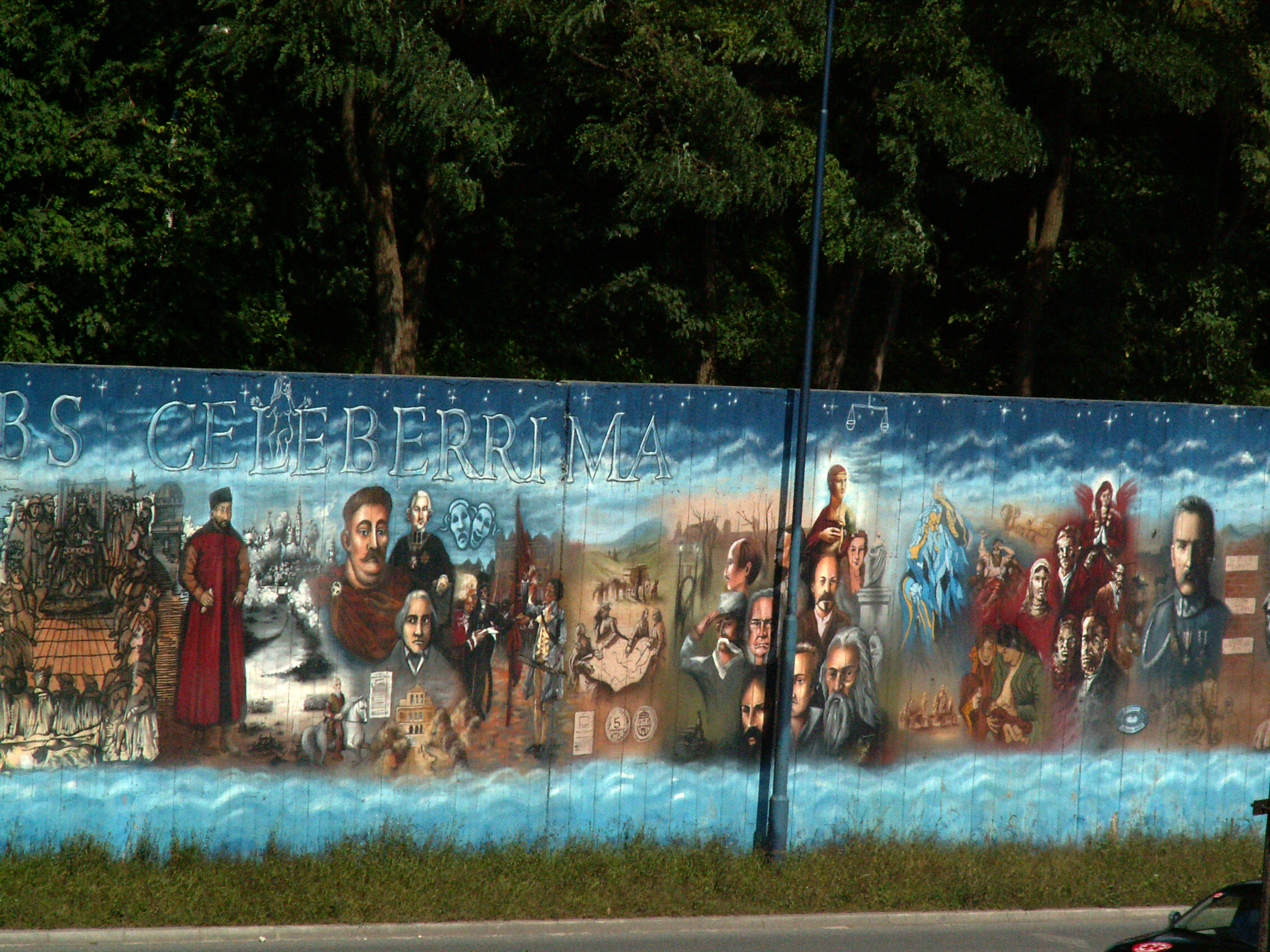 Mural Silva Rerum2,Powstańców Śląskich street,Podgórze,Kraków,Poland